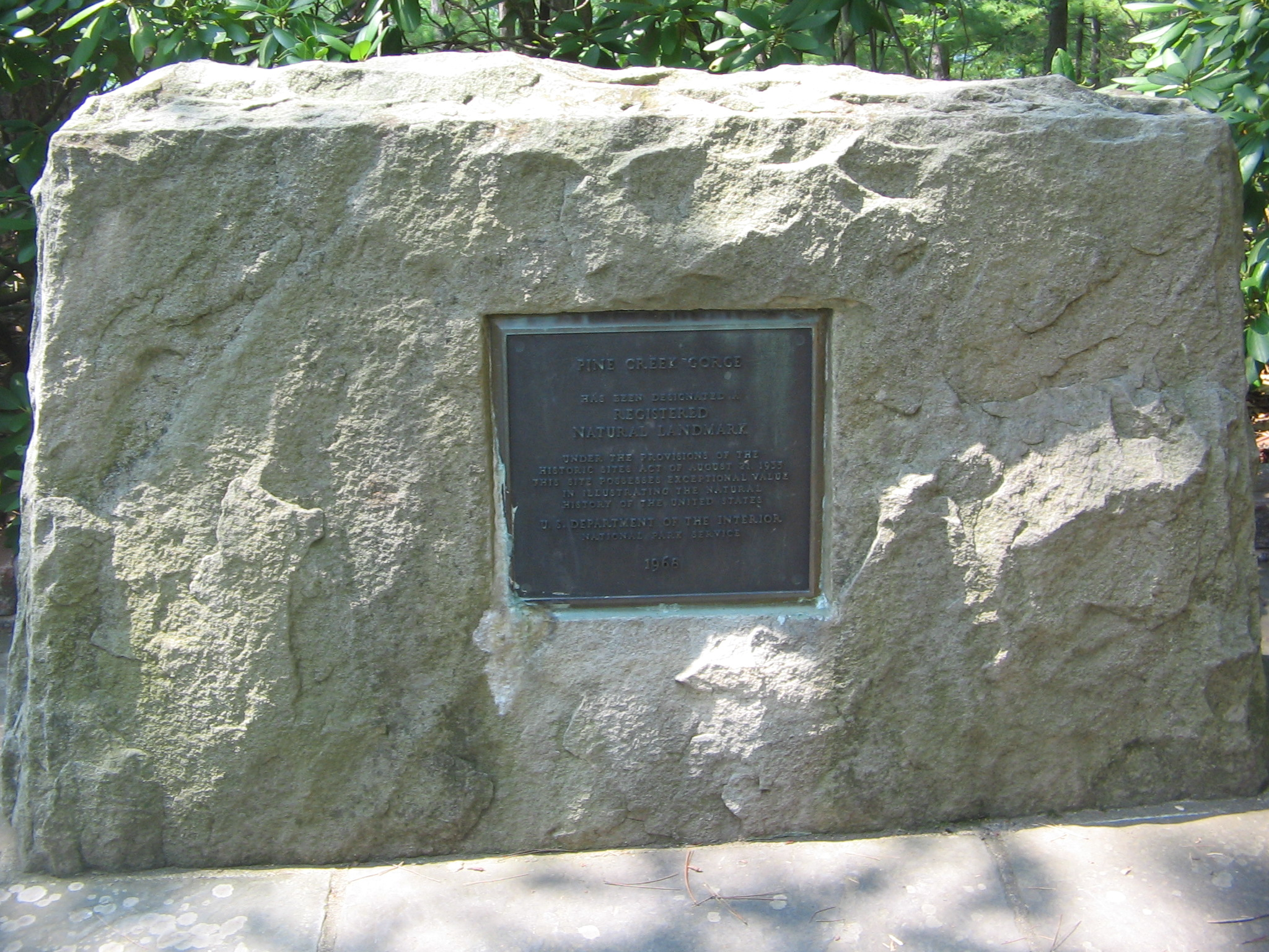 Pine Creek Gorge National Natural Landmark marker in Leonard Harrison State Park in Shippen Township, Tioga County, Pennsylvania, United States